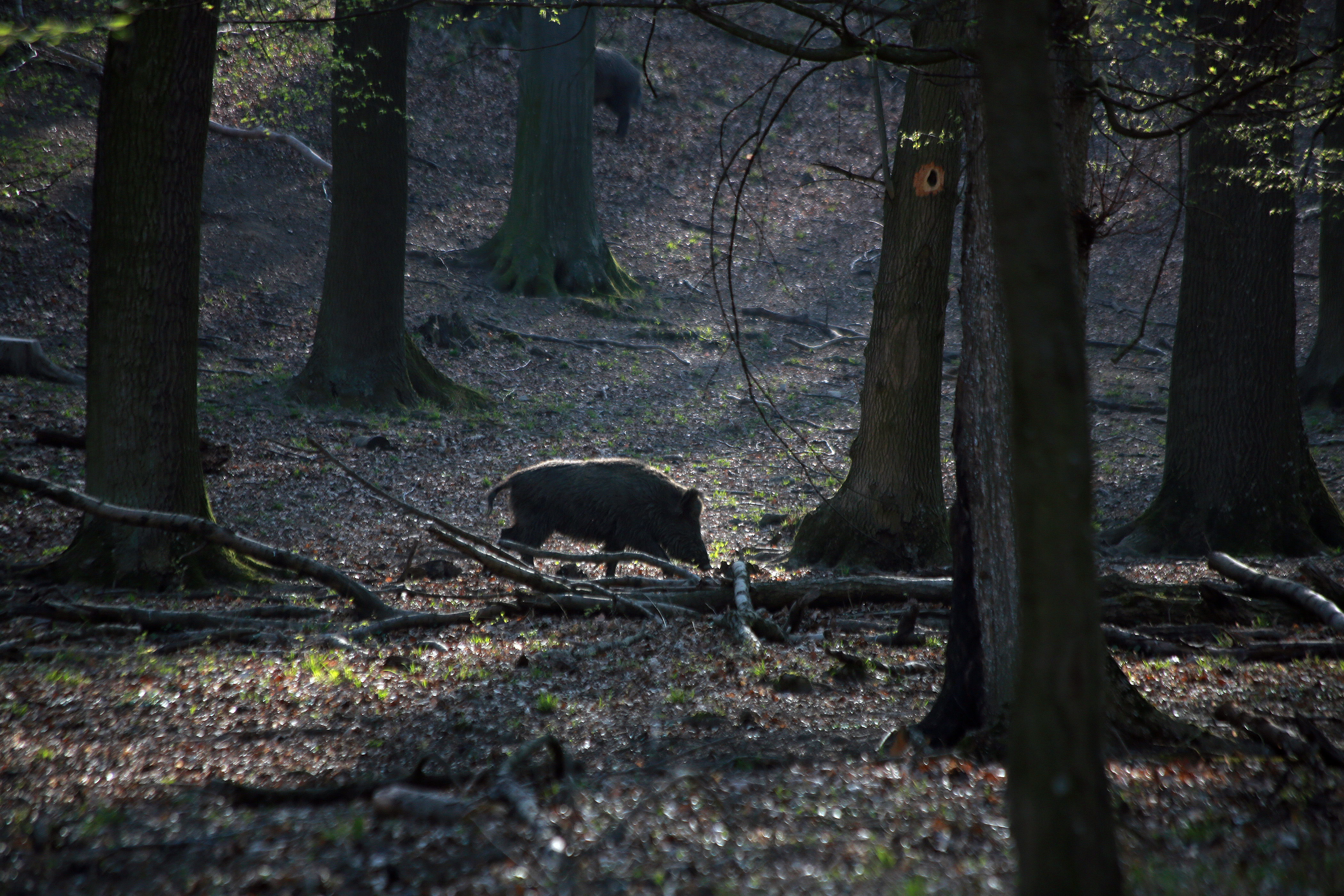 Wild boars (Sus scrofa) in Lainzer Tiergarten (Vienna, Austria).